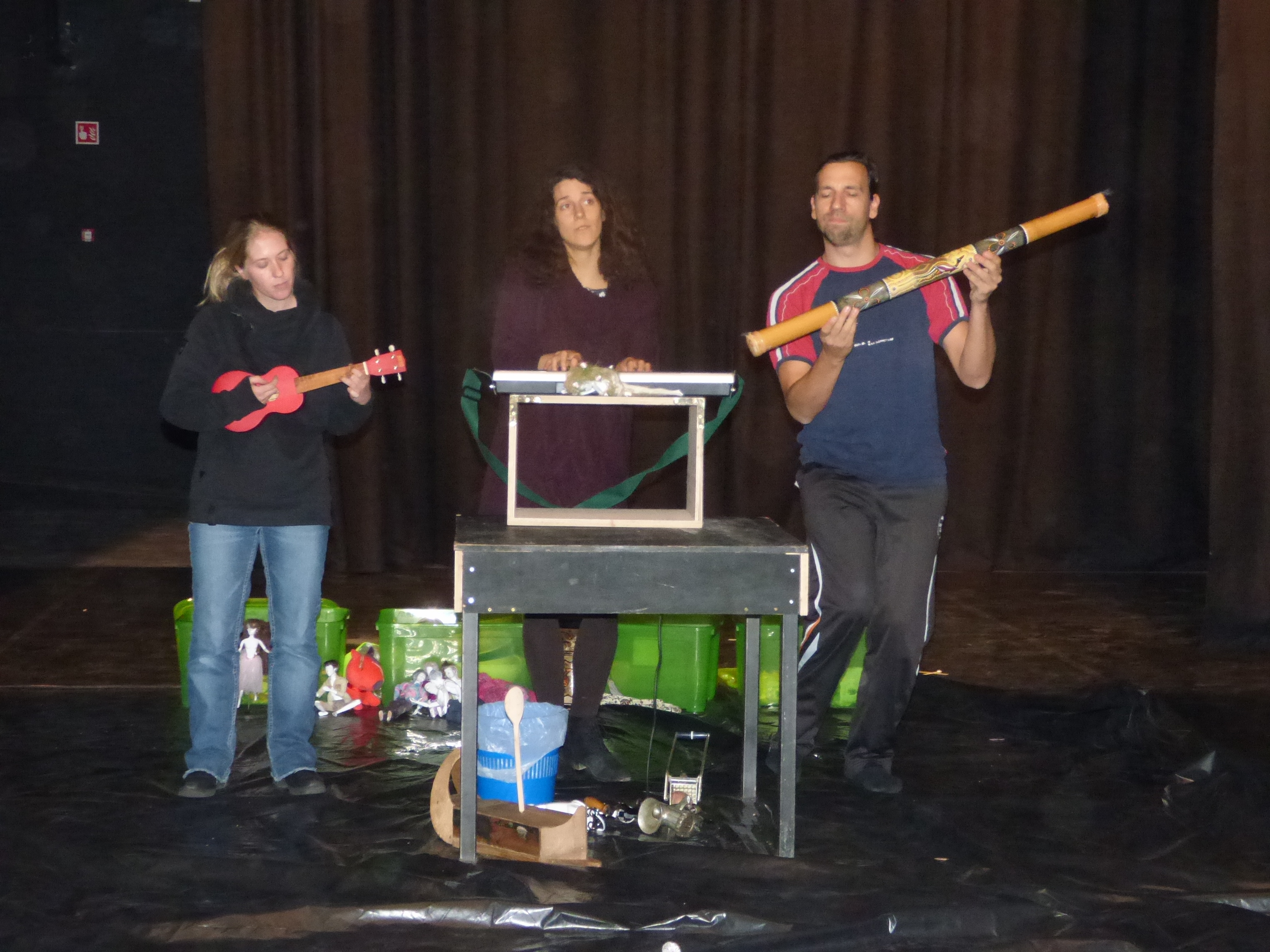 Próba a Magyarországi Német Színházban